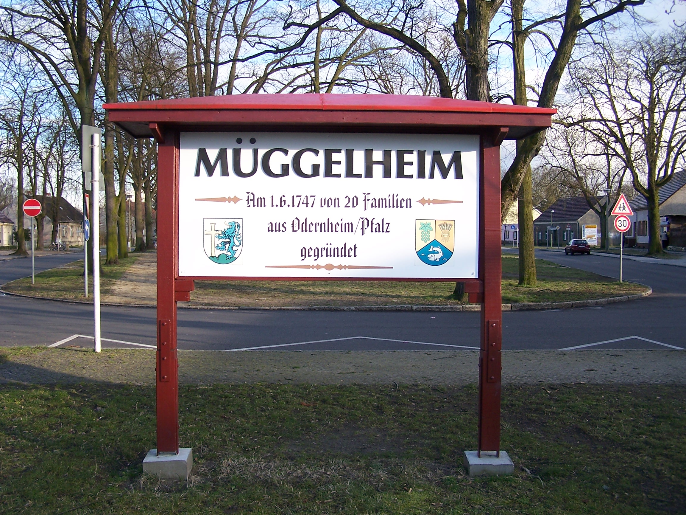 The welcome board of Berlin-Müggelheim. The text means: “Müggelheim – founded June 1st 1747 by 20 families from Odernheim (Palatinate).“